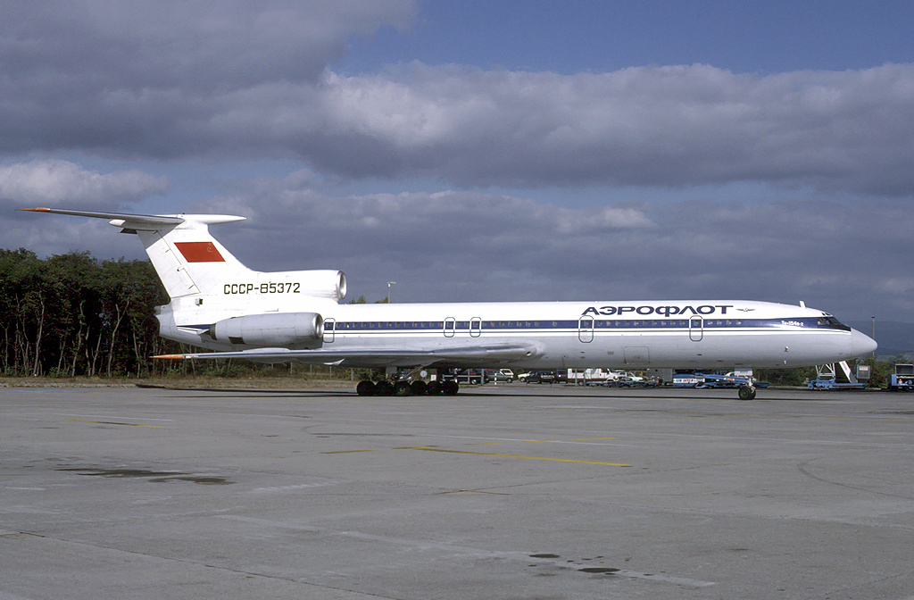 An Aeroflot Tupolev Tu-154B-2 at Euroairport (LFSB)